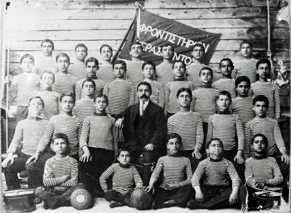 Pontian Greek athletics team from Kerasounta (modern Giresun, Turkey)